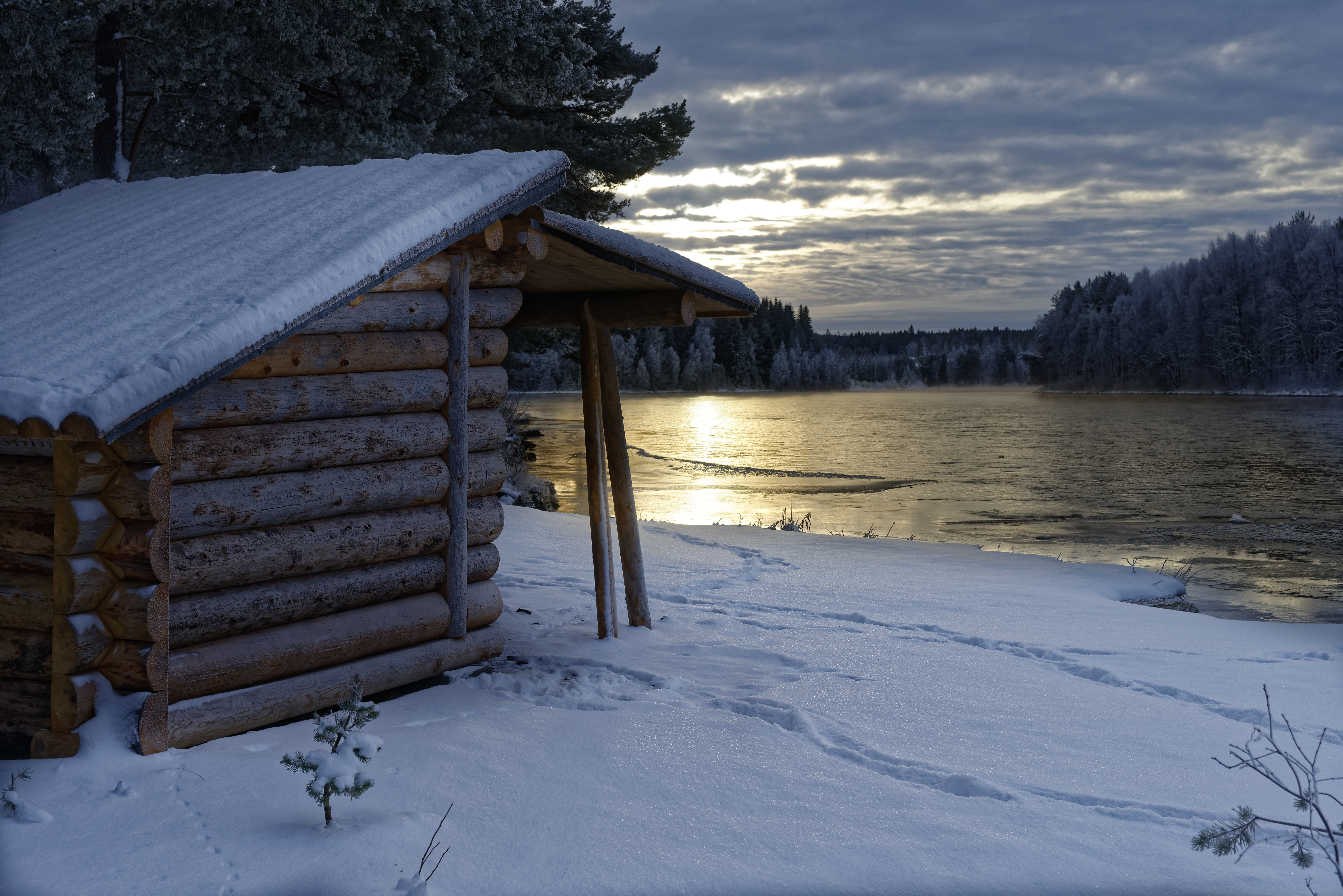 Barbecue area with hut at Älvdalen Camping, Österdalälven, Sweden.